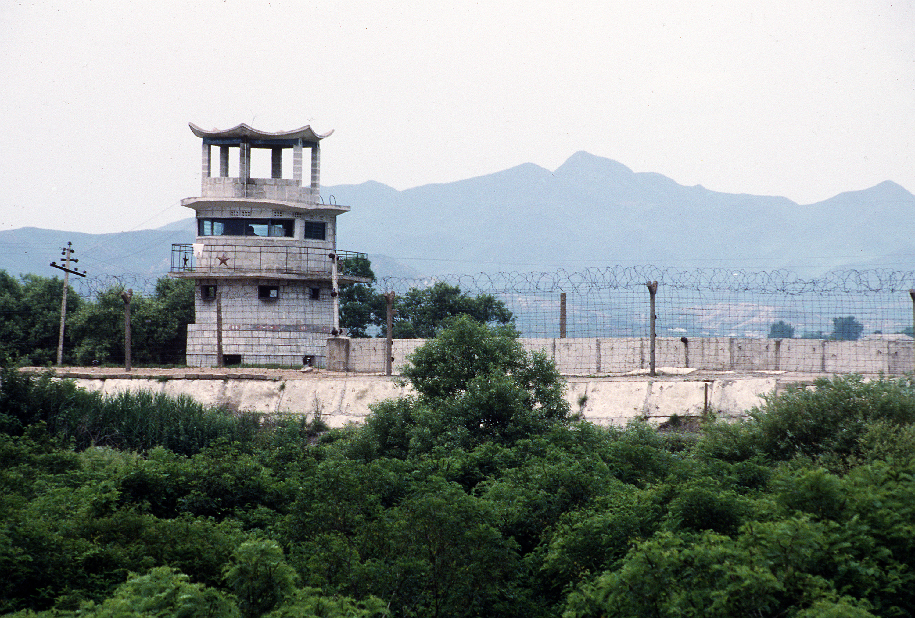 View of the concrete wall and barbed wire separating South Korea from North Korea Kijong-Dong "Propaganda Village". Note the Communist red star located on the guard tower. The Military Line of Demarcation (MDL) runs just in front of the wall.